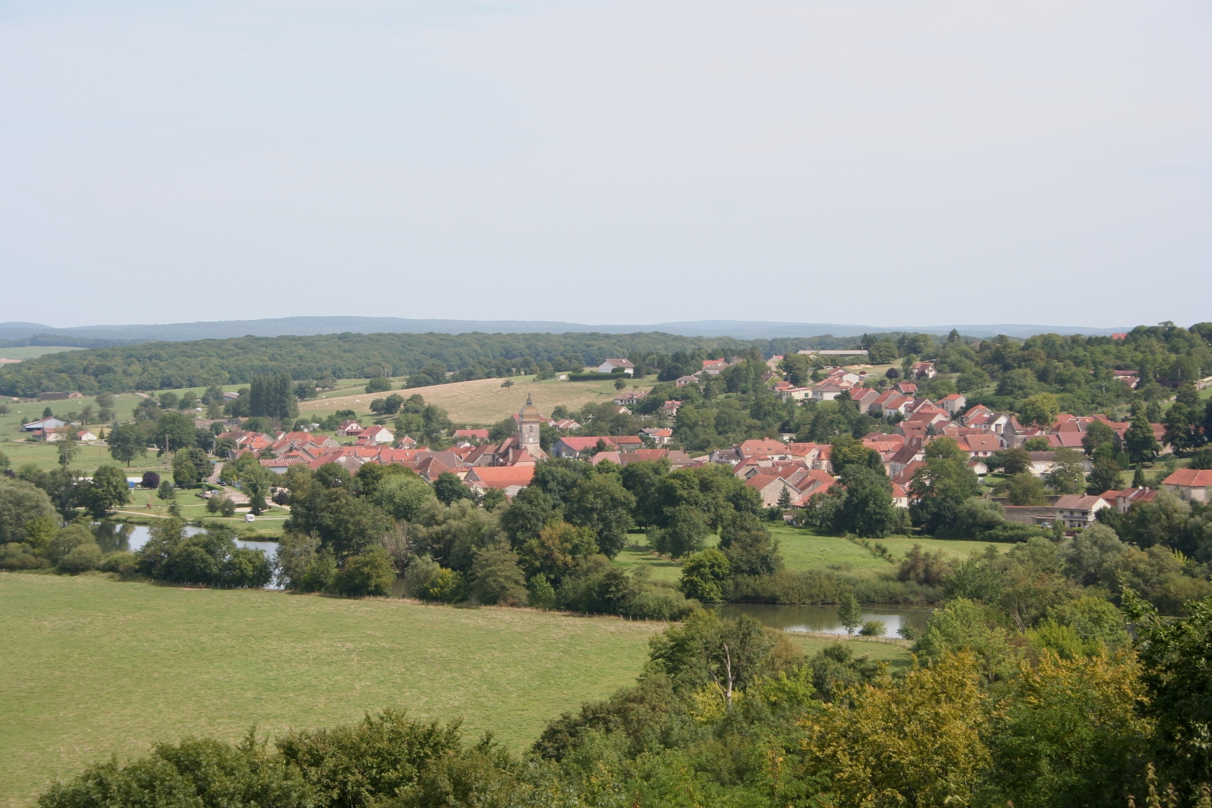 Soing, Haute-Saône, France POV from Charentenay road